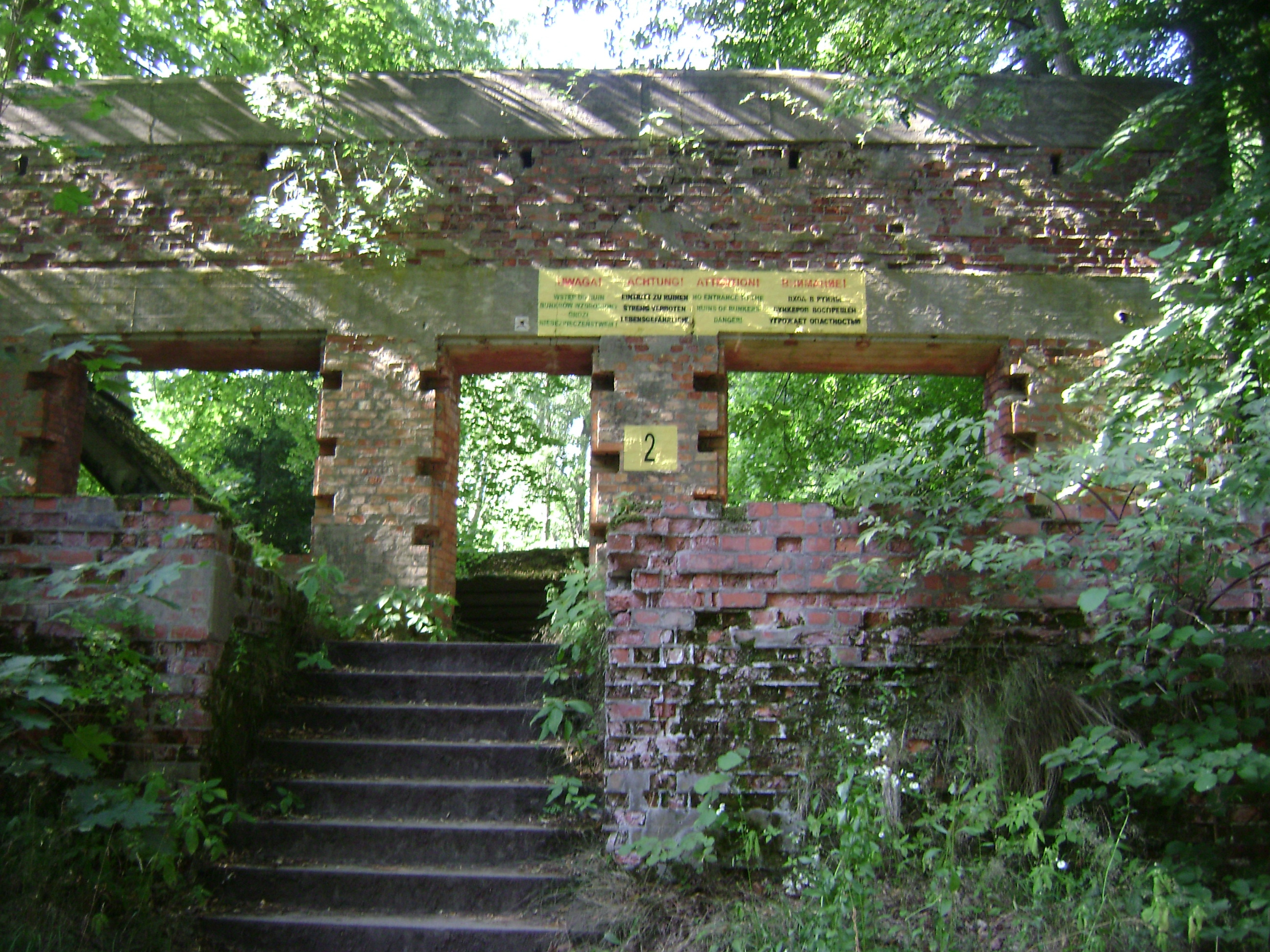 Poland. Kętrzyn. Gierłoż. Wolf's Lair.